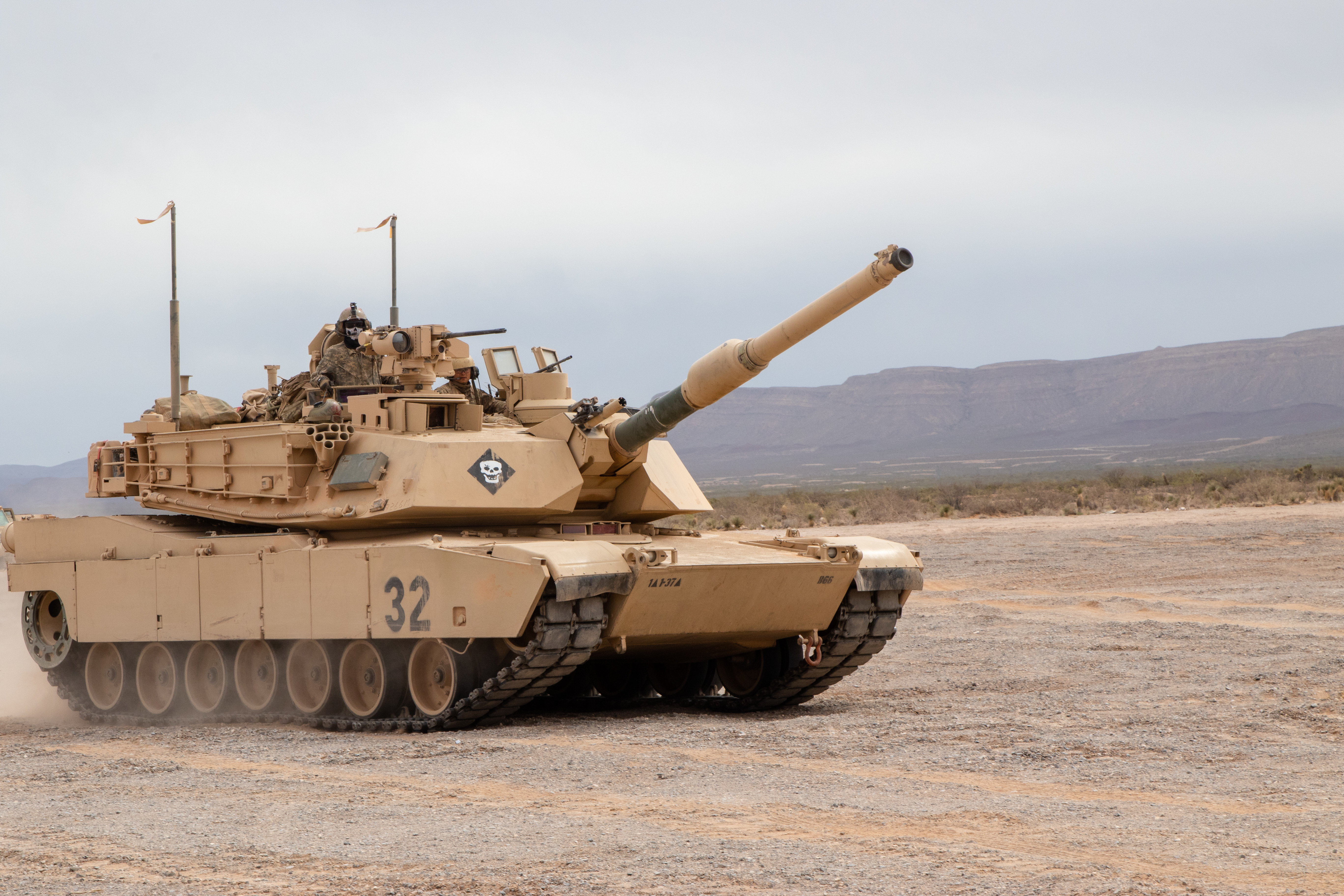 An M1 Abrams battle tank belonging to 2nd Armored Brigade Combat Team, 1st Armored Division, transverses the terrain while assaulting an objective during exercise Strike Focus, at Orogrande Range Camp, N.M., April 12, 2019. Strike Focus is a multifaceted exercise designed to test and train the 2ABCT’s capabilities in simulated scenarios mirroring real-life combat scenarios while improving 2ABT’s lethality, readiness and deployability. (U.S. Army photo by Spc. Matthew J. Marcellus)